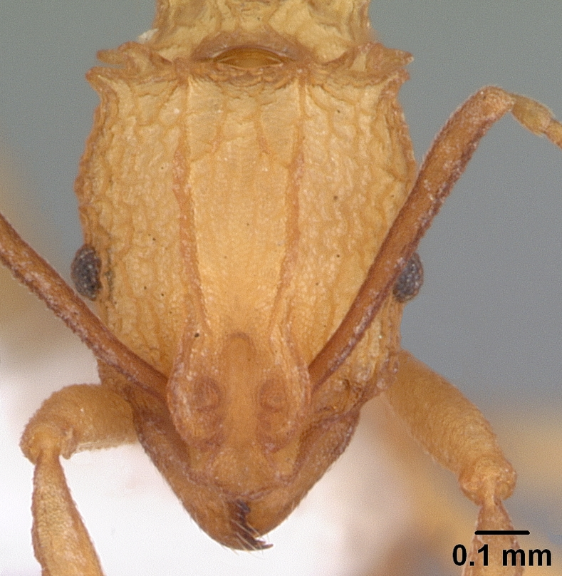 Head view of ant Proatta butteli specimen casent0010836.